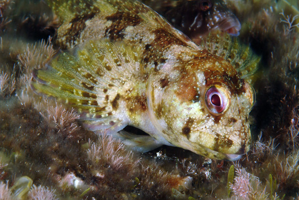 Paralipophrys trigloides (head) photographed on Tuscany coasts (Italy). Photo by Stefano Guerrieri.